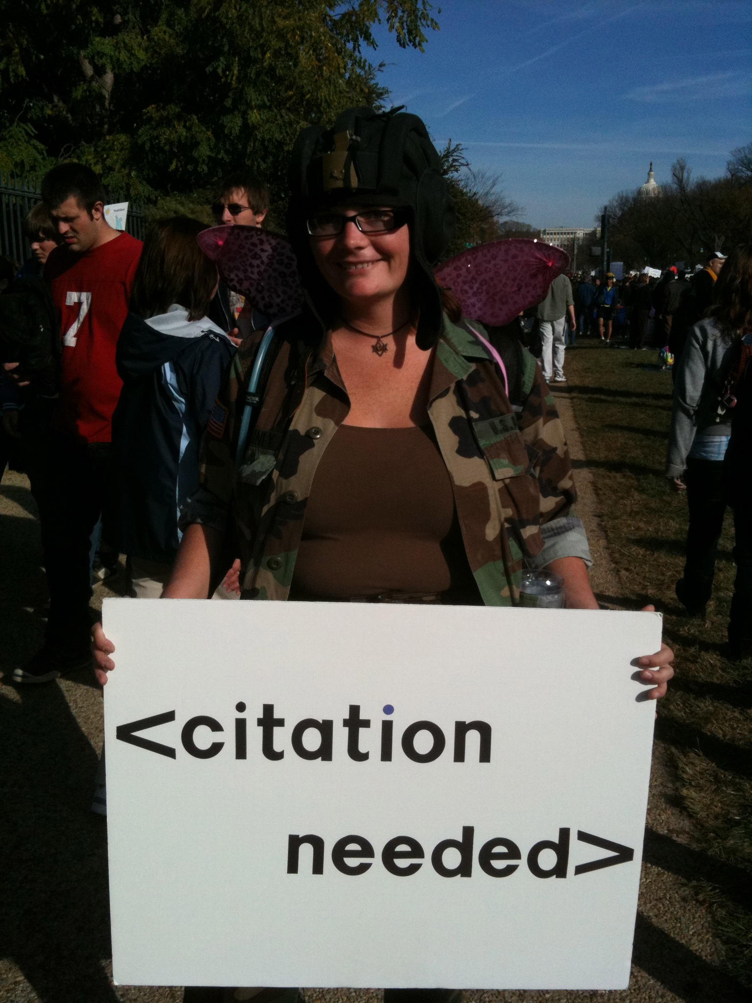 Citation needed sign at Rally to Restore Sanity and/or Fear 2010.